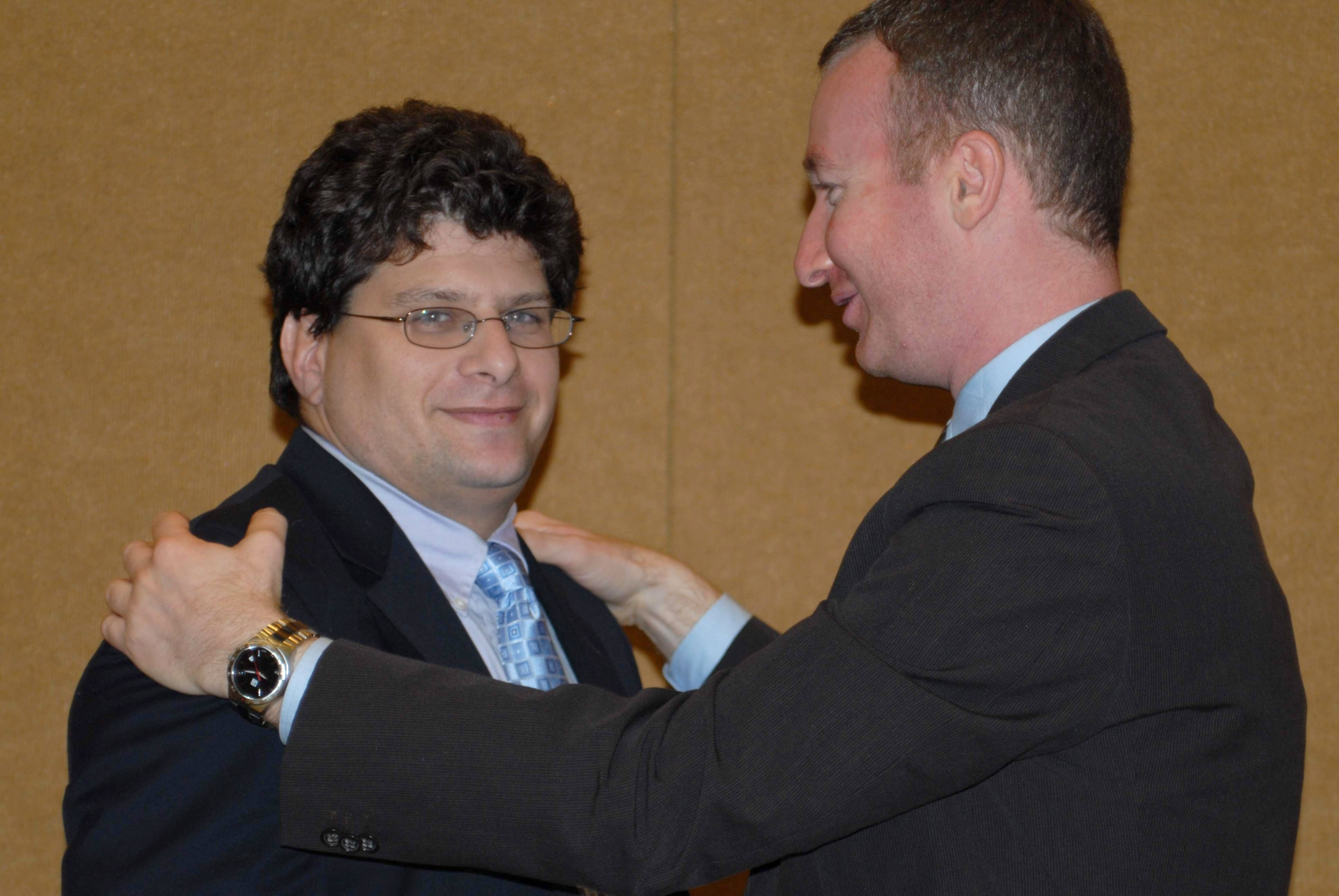 Photos by Ted Van Pelt. Licensed Creative Commons